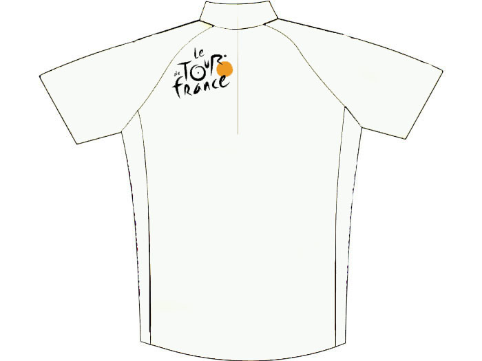 Tour de France - young riders who are less than 25 years old on January 1 (maillot blanc) Autor: Jiří Žemlička